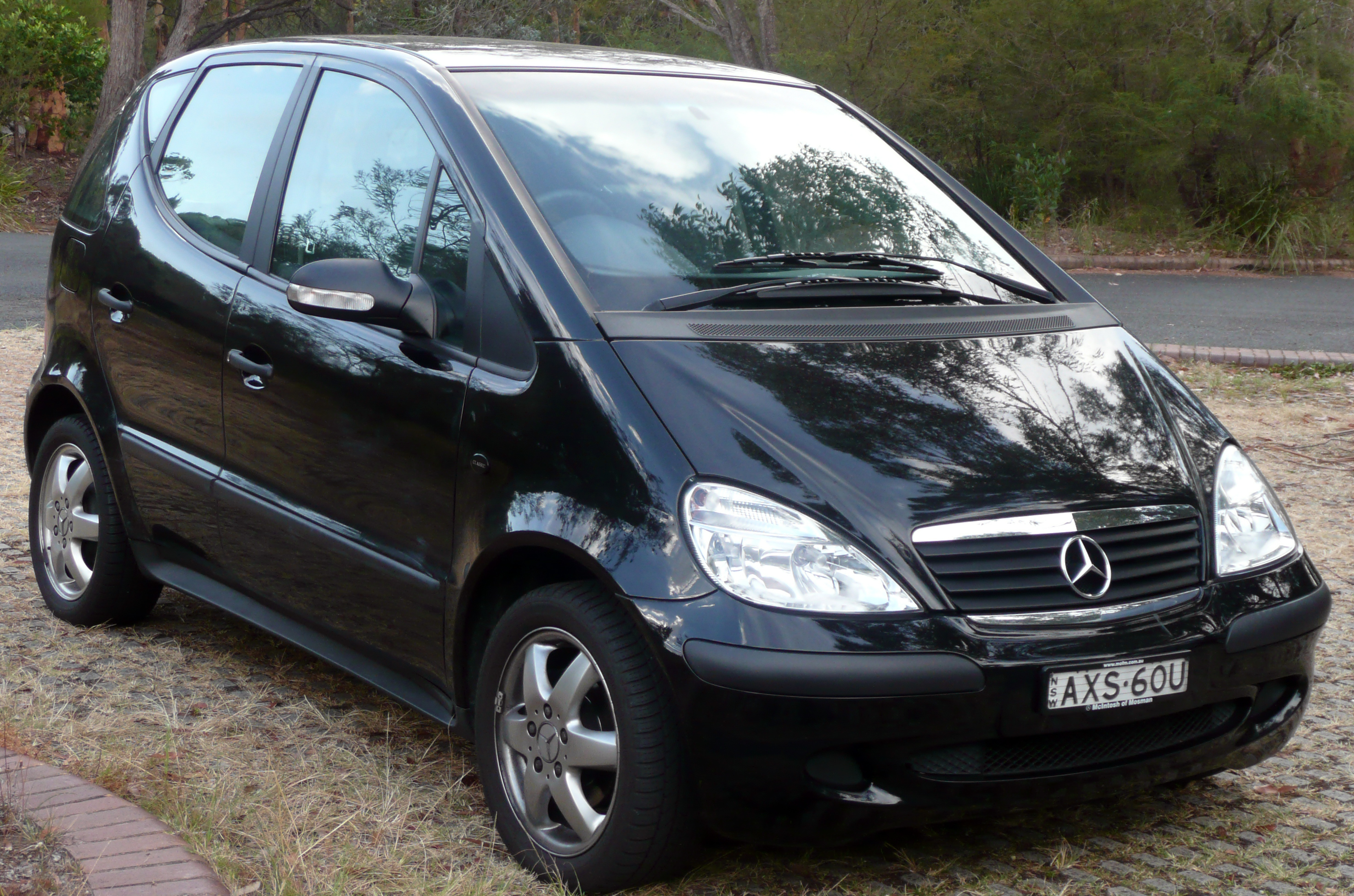 2003–2004 Mercedes-Benz A 160 (W 168 MY03.5) Classic hatchback. Photographed in Audley, New South Wales, Australia.